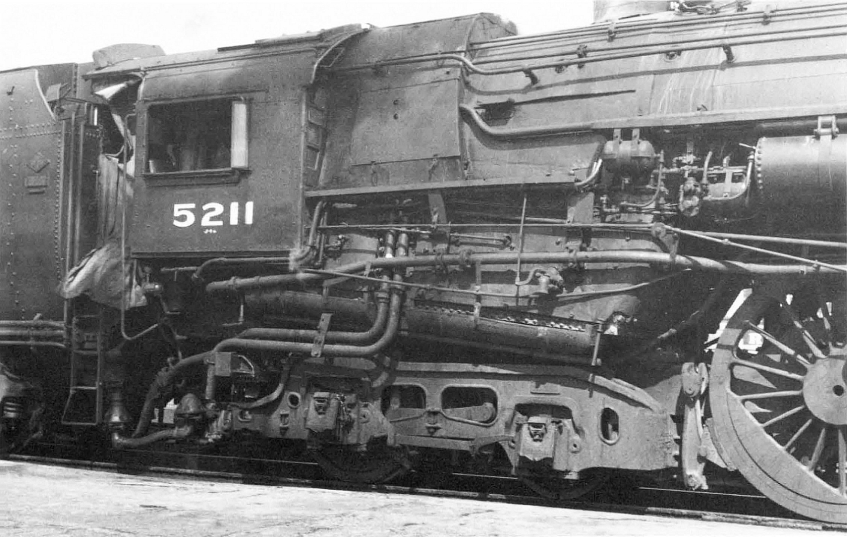 The locomotive "Hudson" No. 5211 of New York Central, built by Alco in 1927.